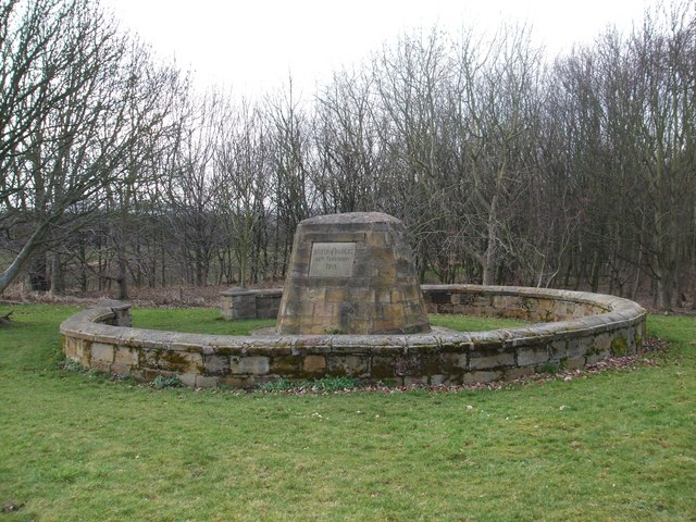 Battle of Roslin This important battle in the Wars of Scottish Independence was fought on the 24th February 1302/1303. (Until 1600 the year began on the 25th March and ended on the 24th March). A Scottish army of 8,000 men under Sir John Comyn and Sir Simon Fraser marched 16 miles from Biggar to confront an English army of 30,000. However the English army was split into 3 columns and the Scots dealt with each in turn with great slaughter. Local names refer to this with places such as 'Shinbones Field', 'Killburn' and 'Hewan' (or Hewings).